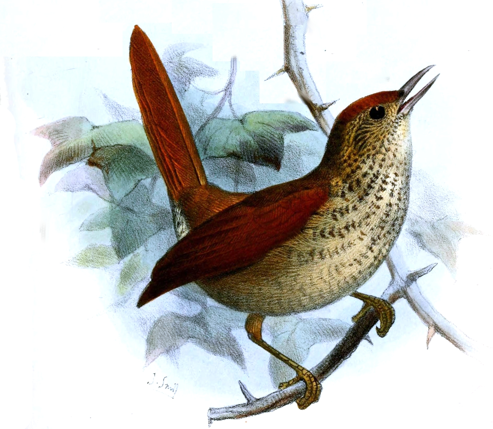 Synallaxis hyposticta